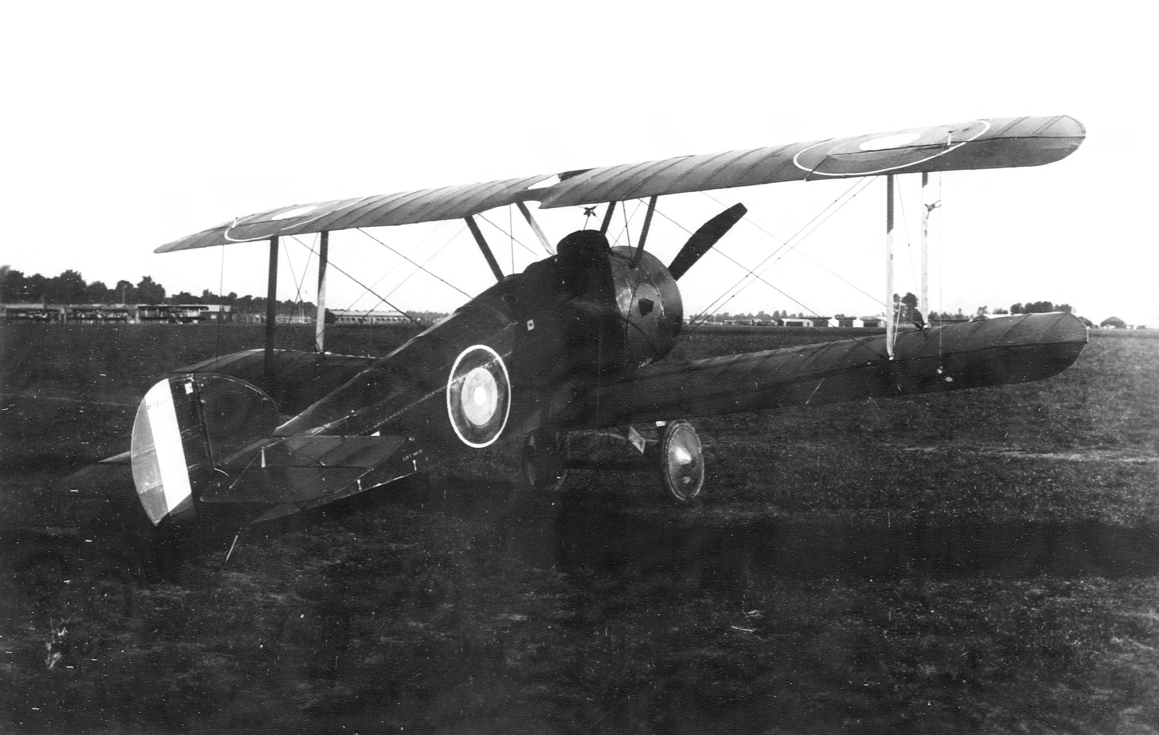 Sopwith Camel at Air Service Production Center No. 2, Romorantin Aerodrome, France, 1918